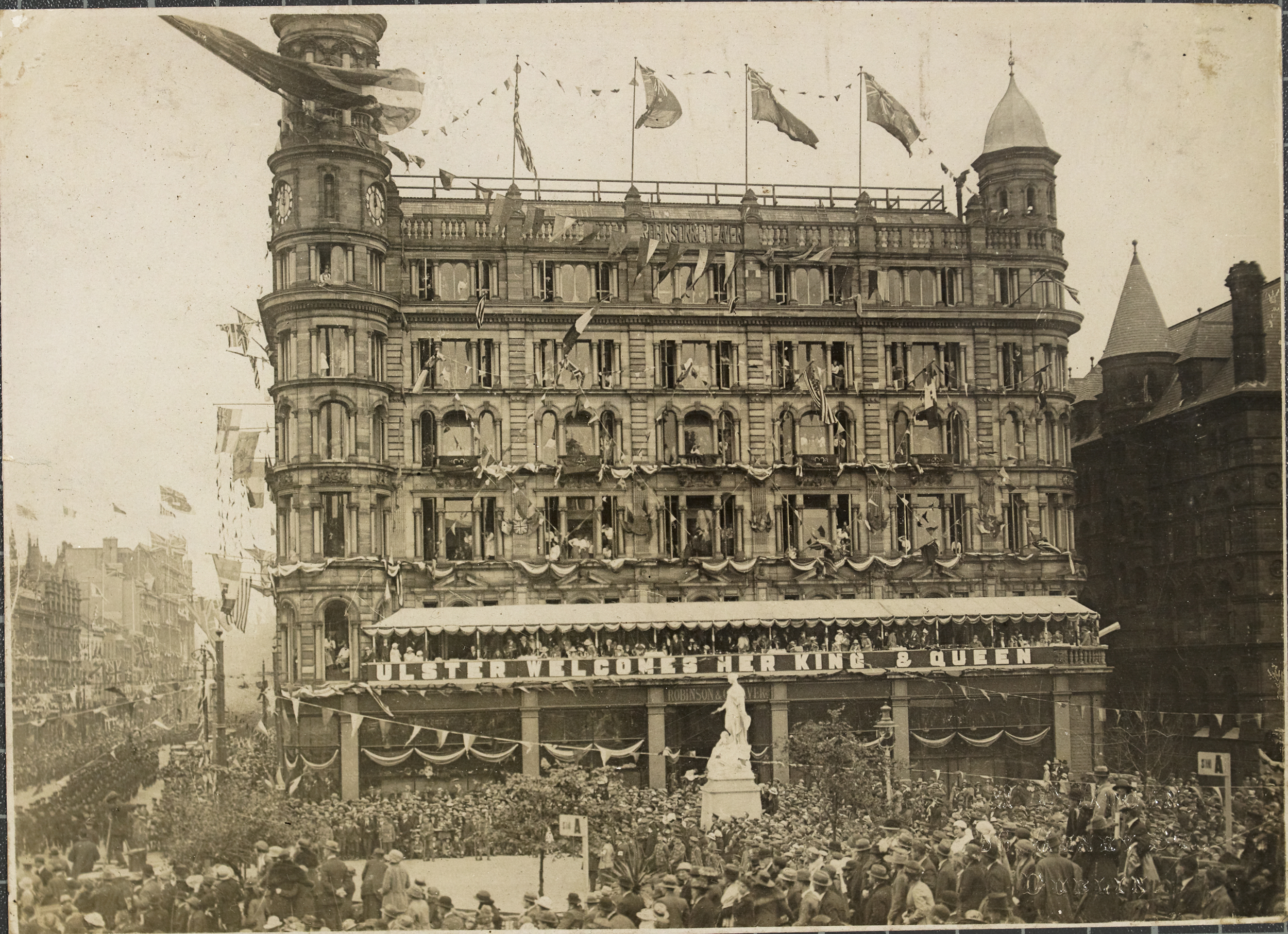 Belfast generally, and Robinson and Cleaver Department Store in particular, en fête for the State Opening of the first Northern Ireland parliament... Photographer: W.D. Hogan Date: Wednesday, 22 June 1921 (at 11:55 or 12 noon) NLI Ref.: HOGW 184